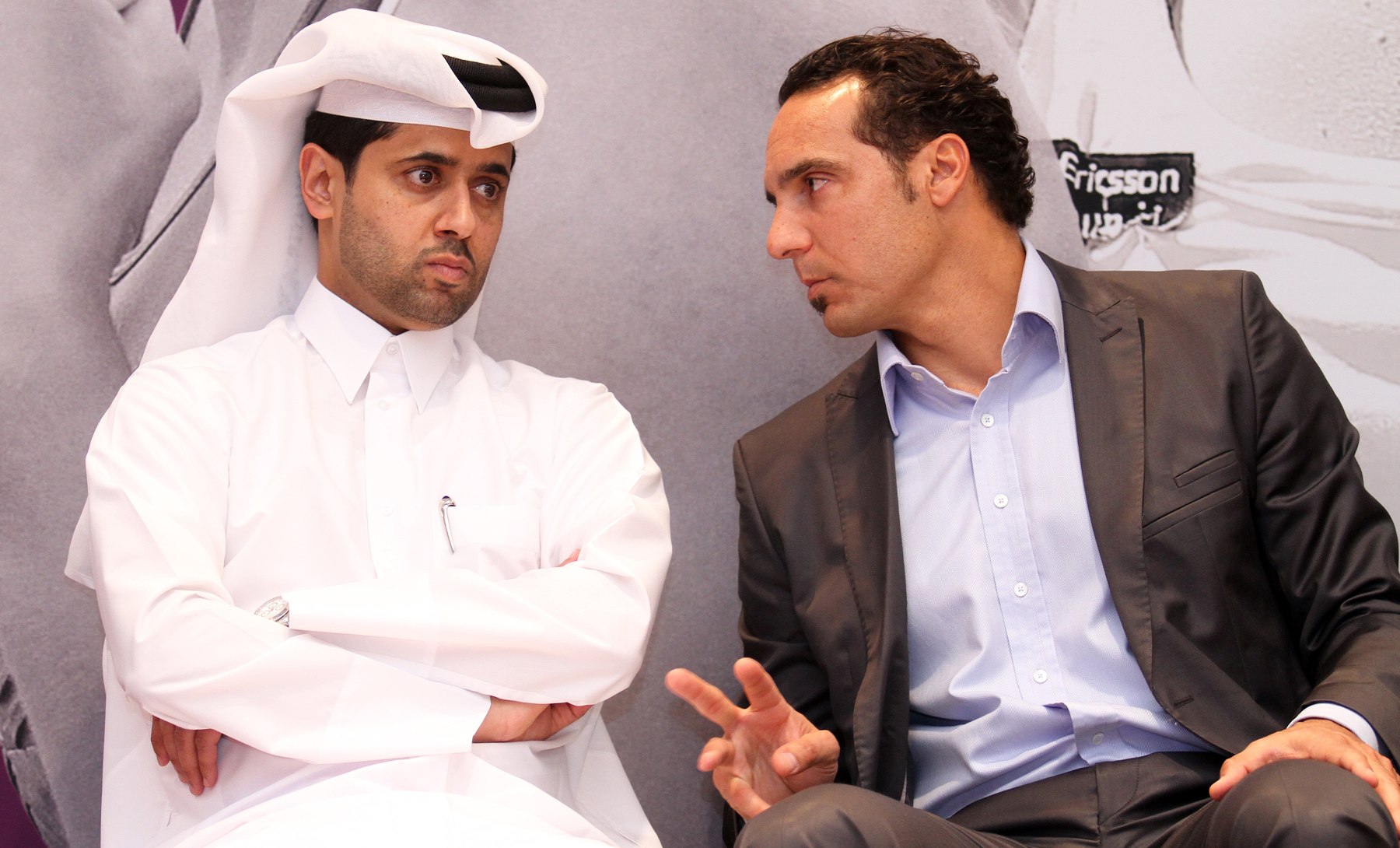 Qatar tennis Federation President Nasser Ghanem Al Kholaifi and Qatar Total Open Tournament Director Karim Alami are engaged in a chat. Picture by Vinod Divakaran